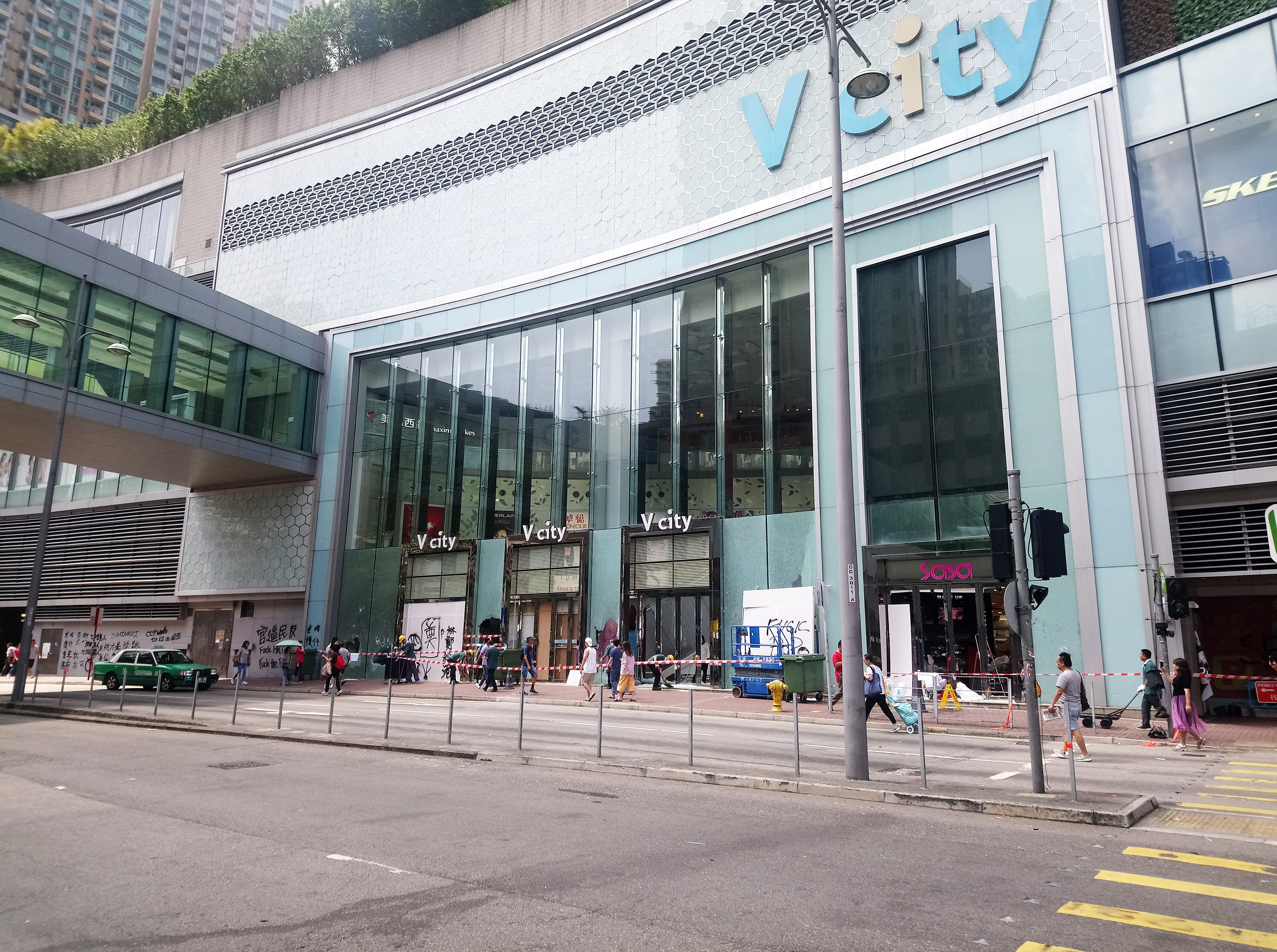 V City